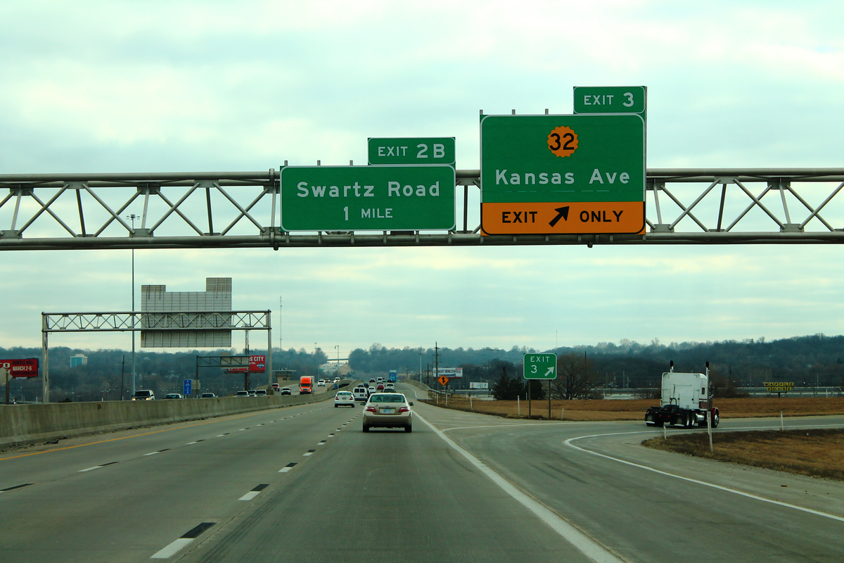 Interstate 635 at exit for K-32 (Kansas highway)